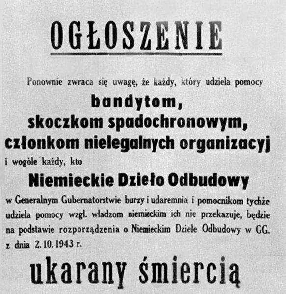 German annoucement, written in Polish language, saying: Everyone who helps bandits, parachuters, members of illegal organizations and everyone at all who destroys or foils the German Deed of Rebuilding in General Government, or helps their helpers, or does not give them away to the German authorities, will be punished by death